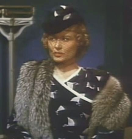 Dorothy Christy in Scared to Death - cropped screenshot